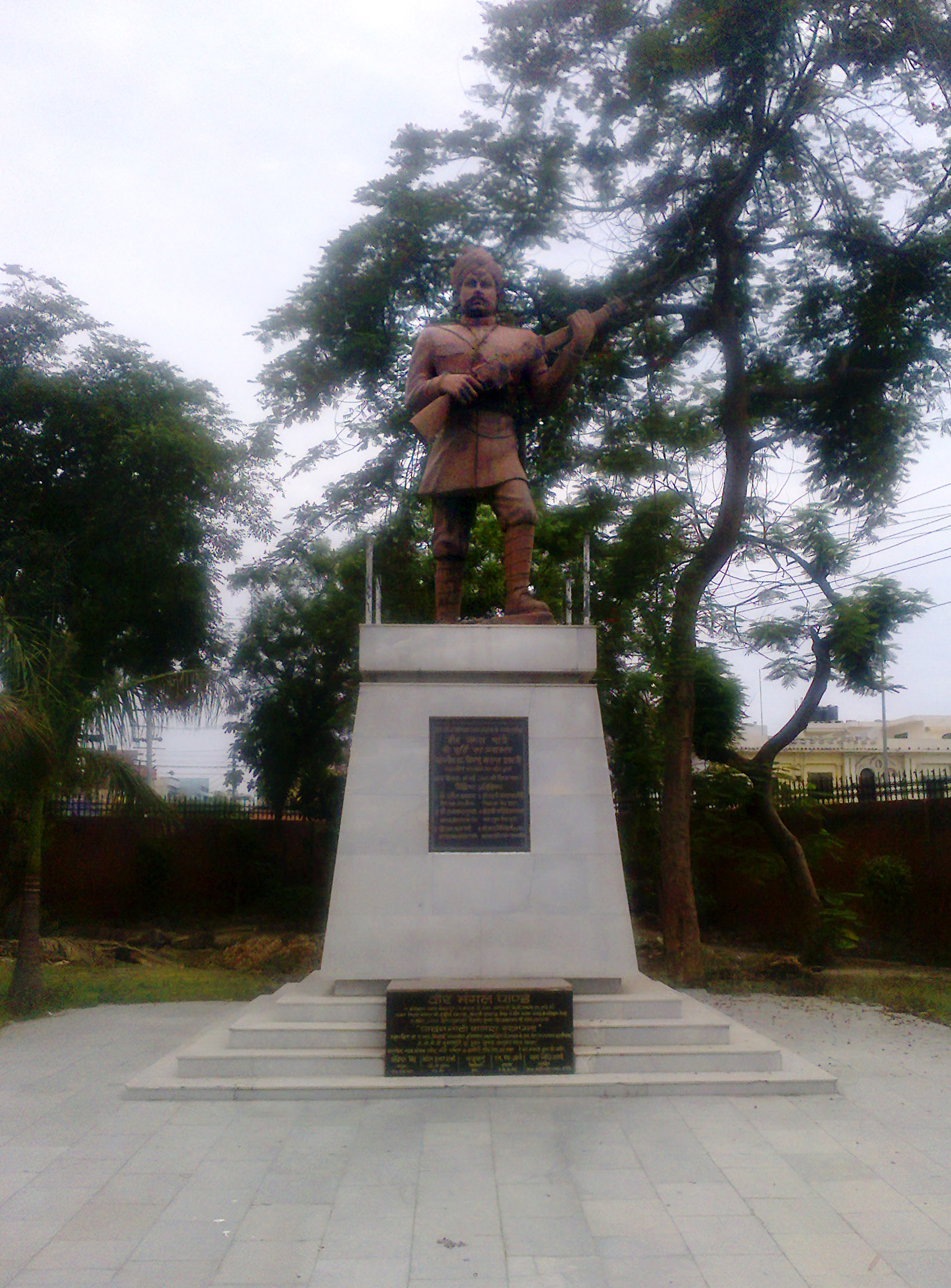 This is the statue of Mangal Pandey at the Shaheed Smarak (Martyr's Memorial) in Meerut, India.